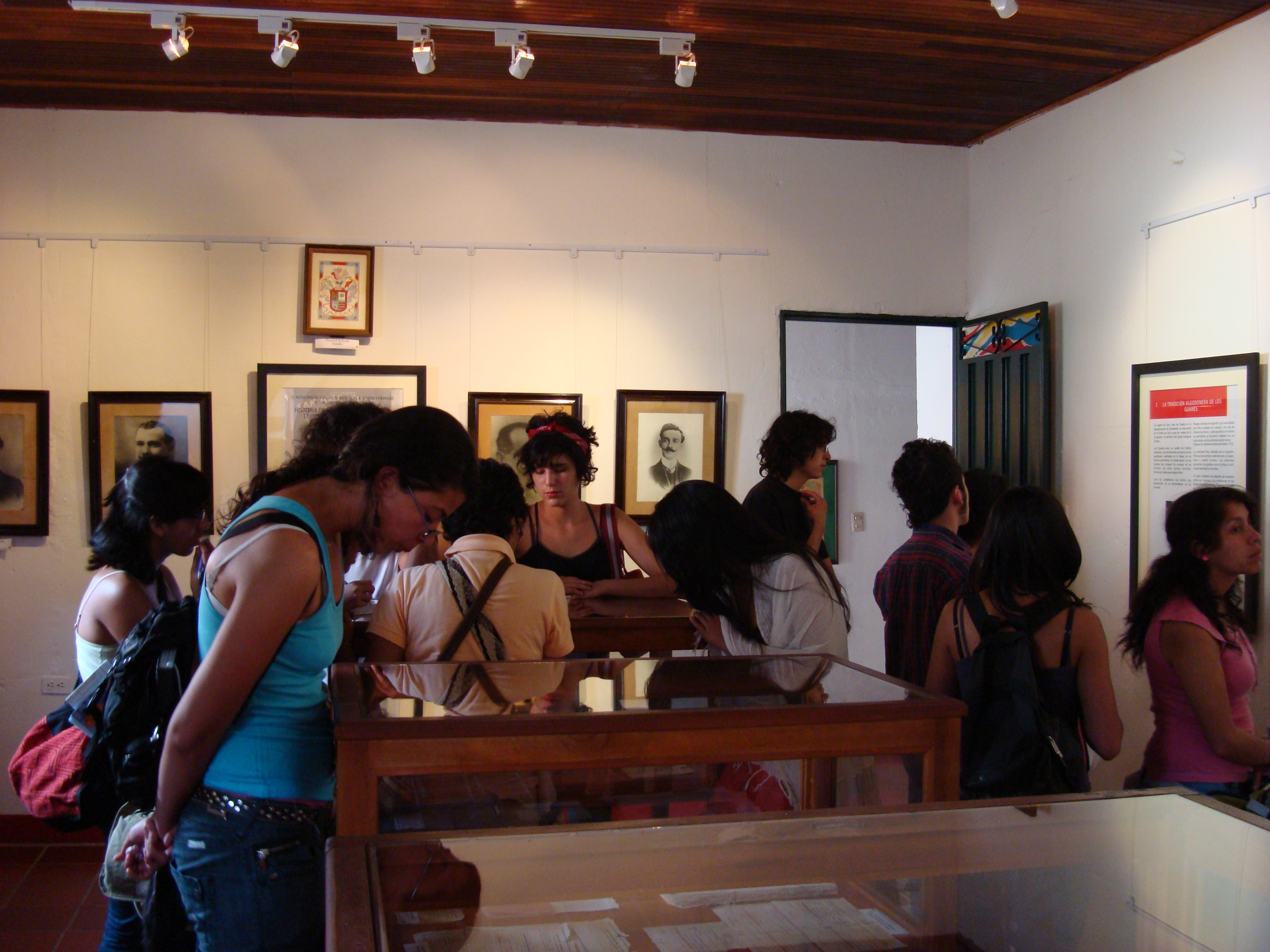 Interior of the San Jose de Suaita Cotton Mill Museum — in San José de Suaita, Colombia.